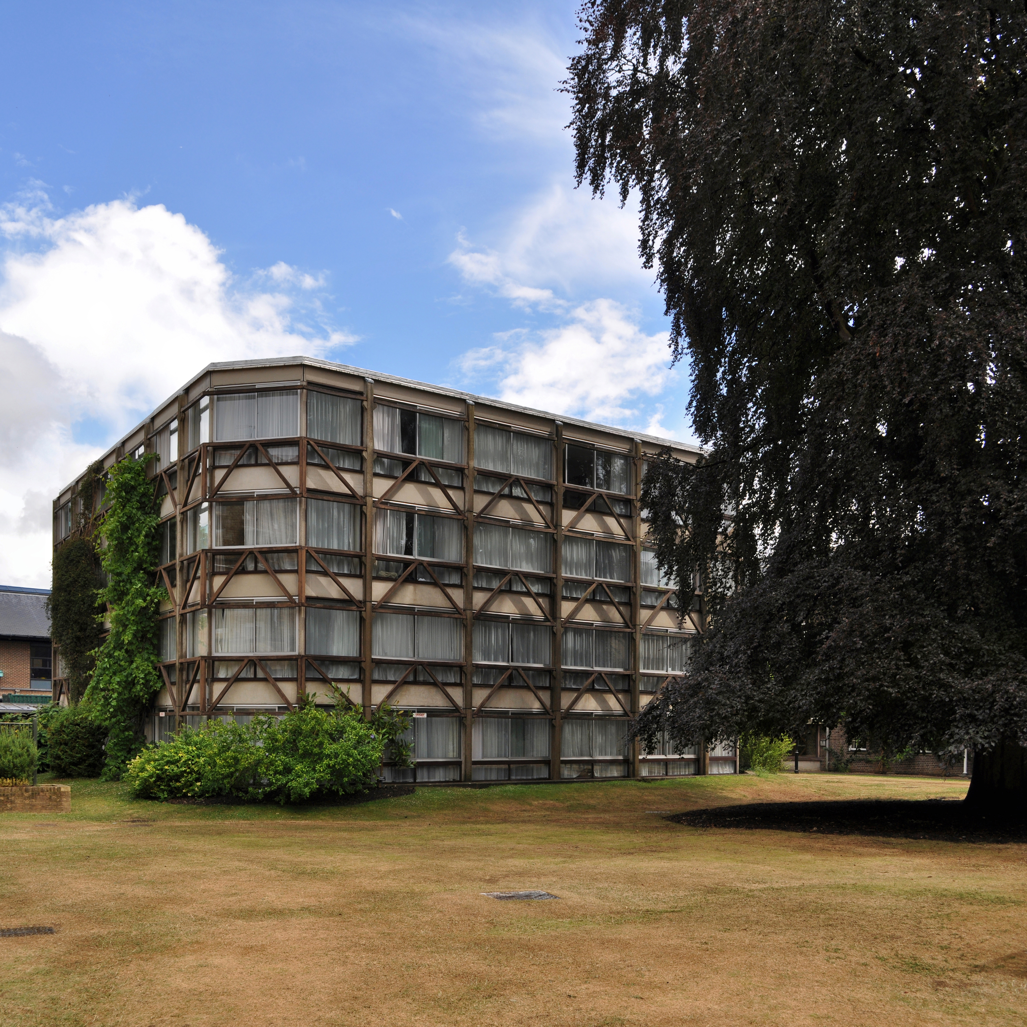 Garden building, St. Hilda's college, Oxford 1967-1970. Architects: Peter and Alison Smithson (1923-2003 & 1928-1993).